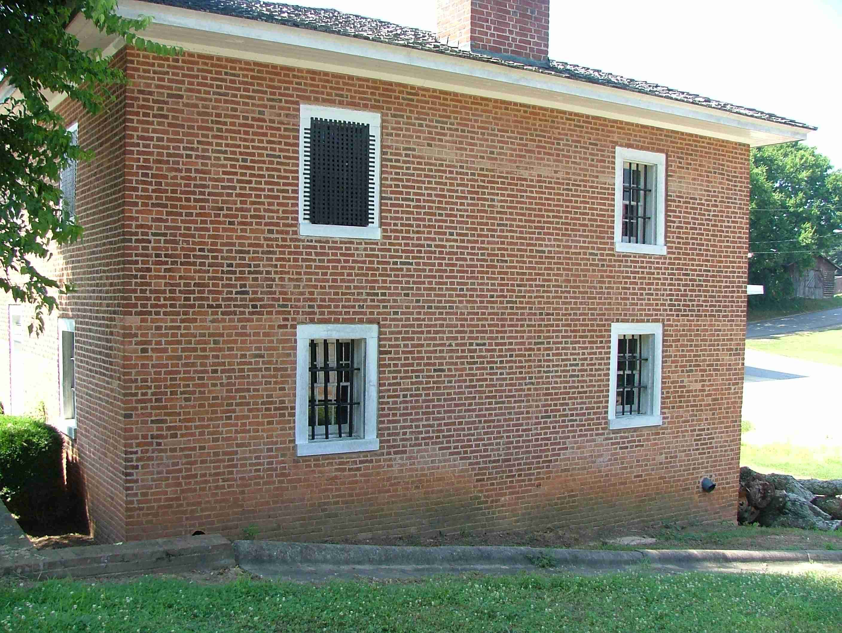 Wilkesboro old Jail, Wilkesboro North Carolina. Picture taken Juli 2004 by Jan Kronsell